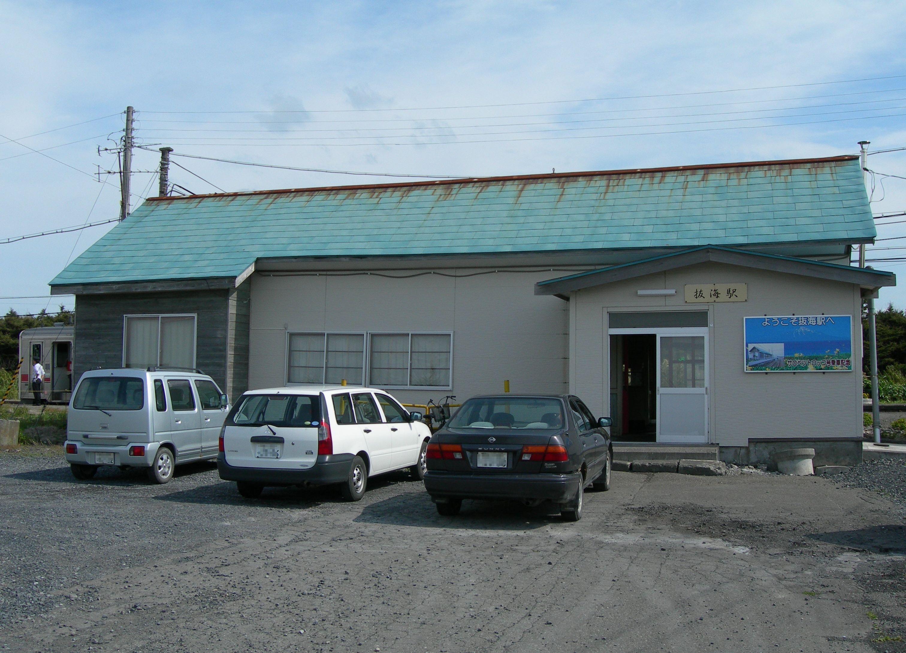 Bakkai Station on the Soya Main Line in Wakkanai, Hokkaido, Japan